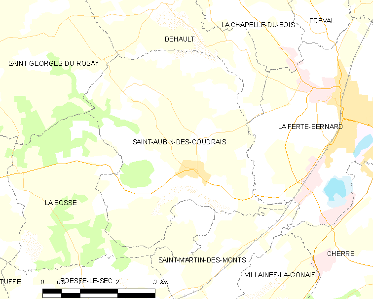 Map of French municipality